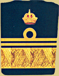 Rank insignia of the Austro-Hungarian Navy (K.u.k. Navy) 1786 to 1918, here “Vice admiral” – sleeve insignia.